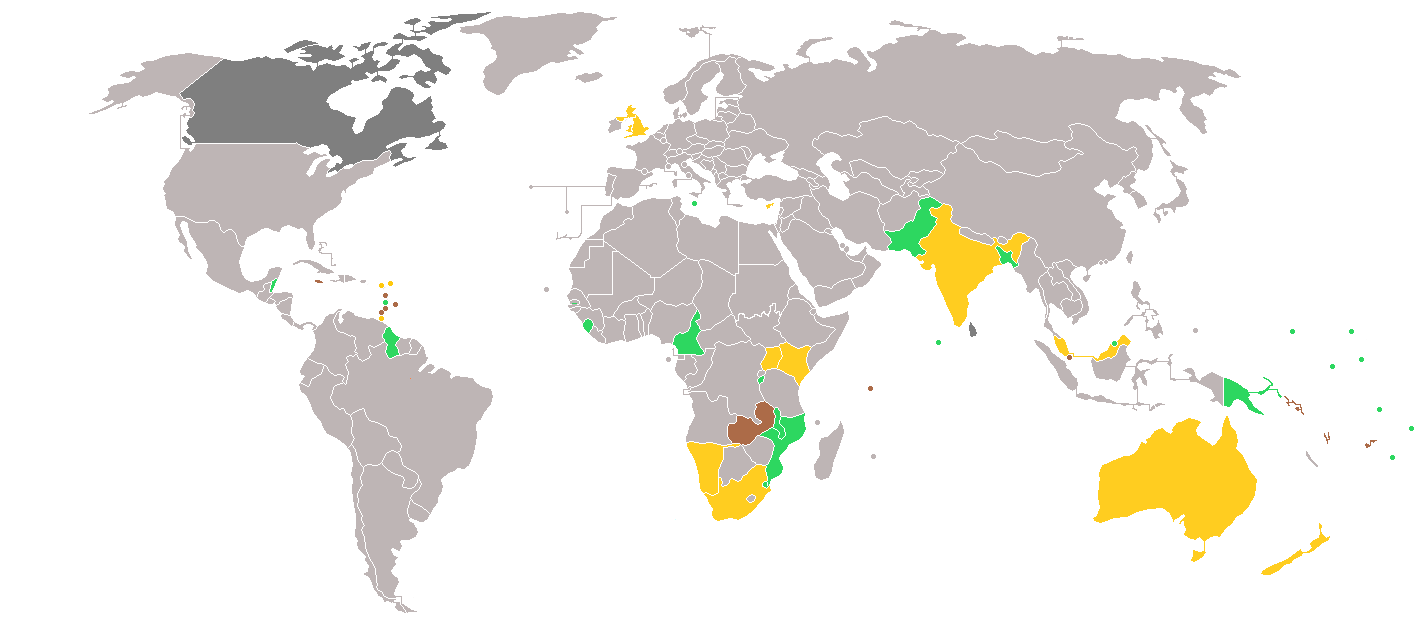 Gold for countries achieving at least one gold medal. Silver for countries achieving at least one silver medal. Bronze for countries achieving at least one bronze medal. Green for countries that did not get any medal. Gray for countries that are not part of the Commonwealth Games Federation.